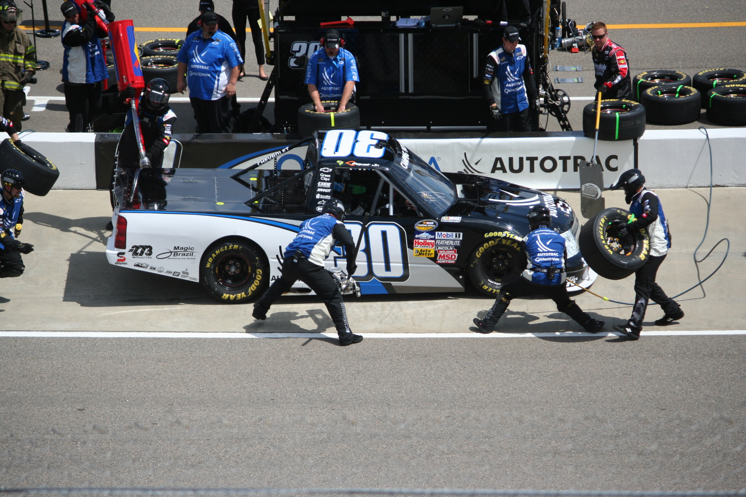 Turner Motorsports' driver Nelson Piquet, Jr. during a pitstop at the 2012 Good Sam Roadside Assistance Carolina 200. Round 3 of the 2012 NASCAR Camping World Truck Series at Rockingham Speedway, North Carolina.